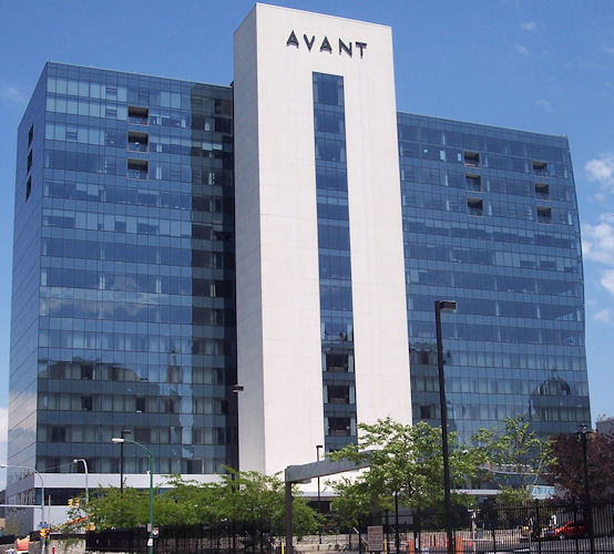 Avant Buffalo Building, Mixed use, Uniland and Acquest Development